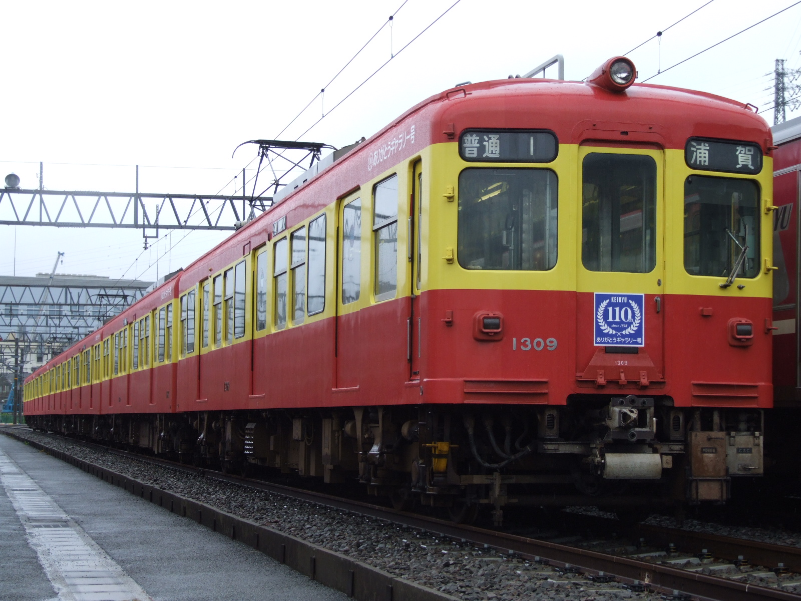 Keikyu 1000 series EMU set 1309 in special "Arigato Gallery" livery at Keikyu Finetec Kurihama Works open day